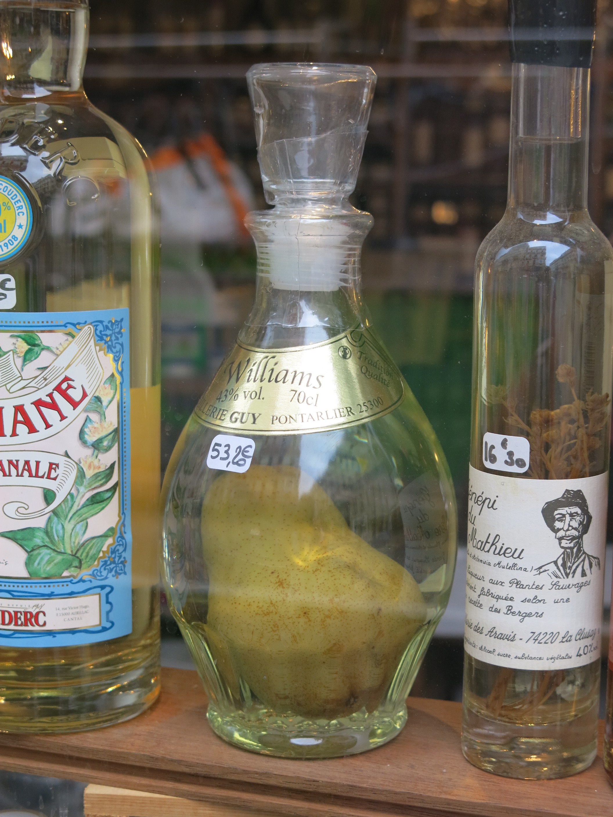 Williams pear in a bottle of pear eau de vie. The pear in entered into the bottle when it is yet small. We let the pear grow inside the bottle. We cut the stem of the pear when the fruit is ripe.